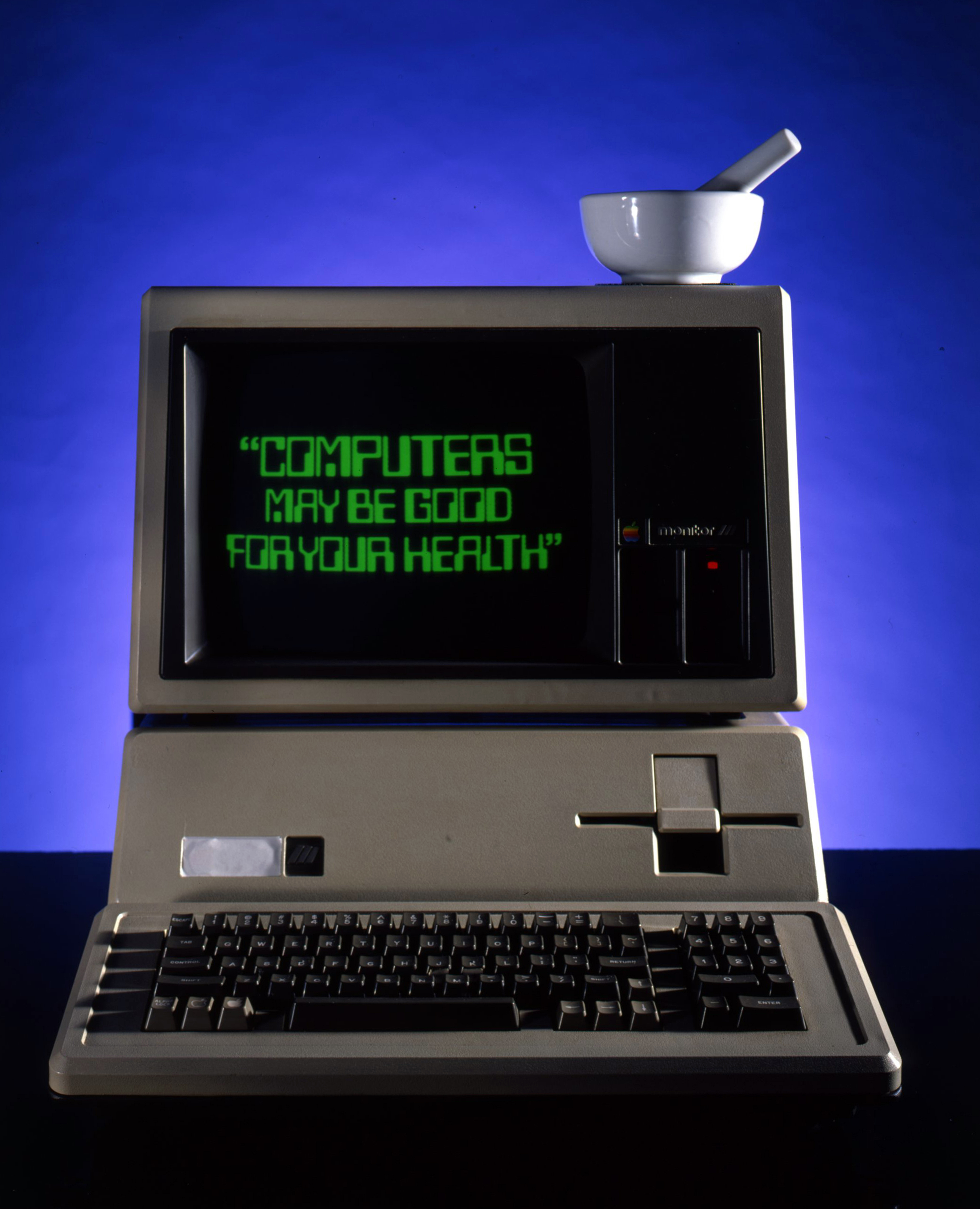 The Apple III was a commercial flop, but medical observers nonetheless predicted that the desktop computer would “undoubtedly create changes in medicine whose dimensions cannot now be fully measured.” FDA Consumer, November 1984, p. 8. For more information on FDA History, please visit